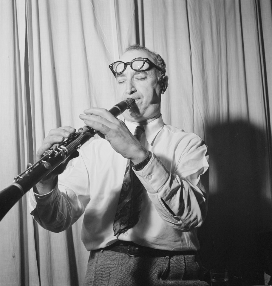 Mezz Mezzrow in his office, New York, N.Y., ca. November 1946 (Photograph by William P. Gottlieb)